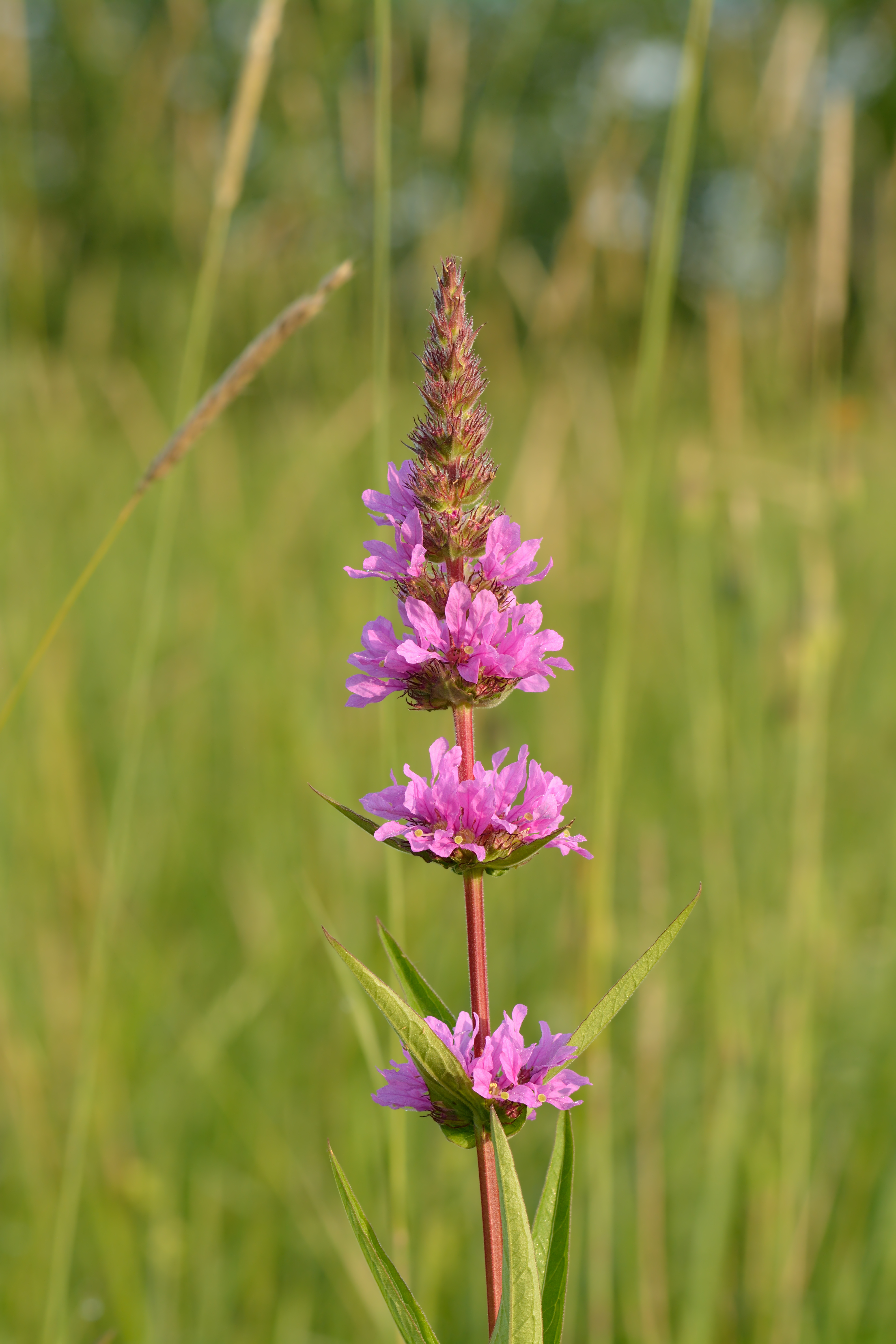 Purple loosestrife (Lythrum salicaria). Meadow in Illurmaa village, Northwestern Estonia.